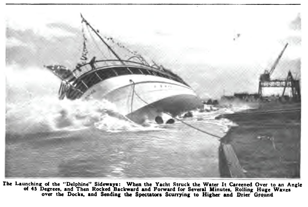 Photograph of the launching of the SS Delphine, in April, 1921